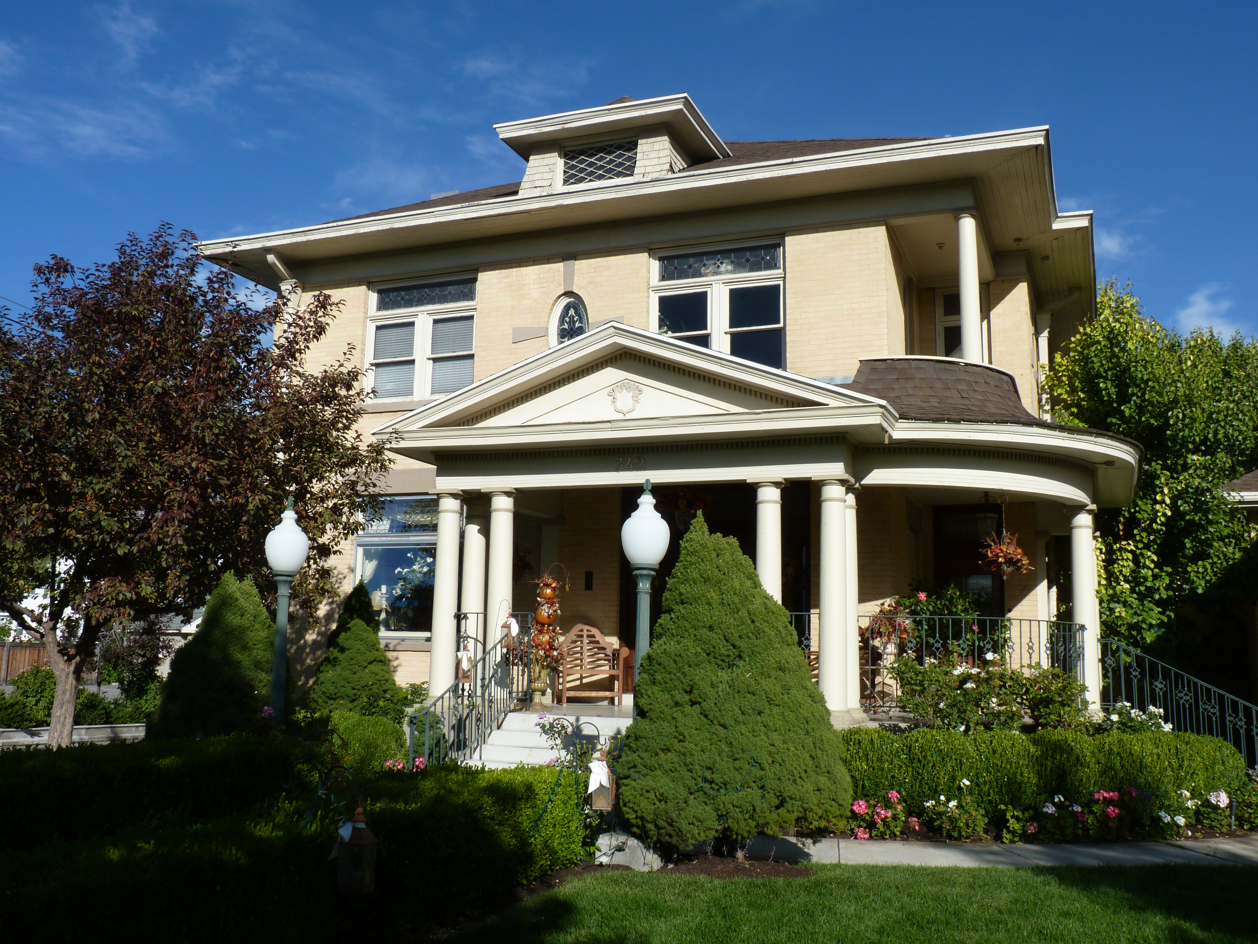 The Thomas N. Taylor House is located in Provo, Utah and is listed on both the NRHP and the Provo City Historic Landmarks Registry.